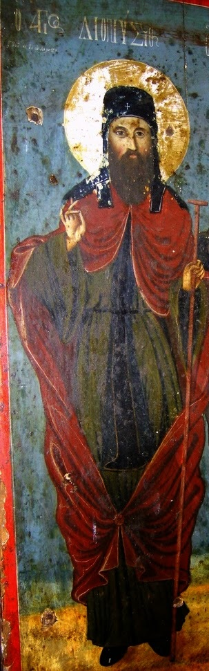 Saint_Dionisius_of_Olympus_and_Saint_Nicanor Icon in St. Athanasius Church in Germas (Loshnitsa)